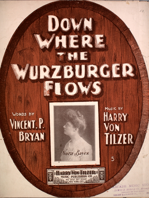 Cover of sheet music for "Where the Wurzburger Flows", published 1902 by the Harry Von Tilzer Music Publishing Co. This item is in a Johns Hopkins University Library special collection called the Levy Sheet Music Collection. This version features singer Nora Bayes on the cover.